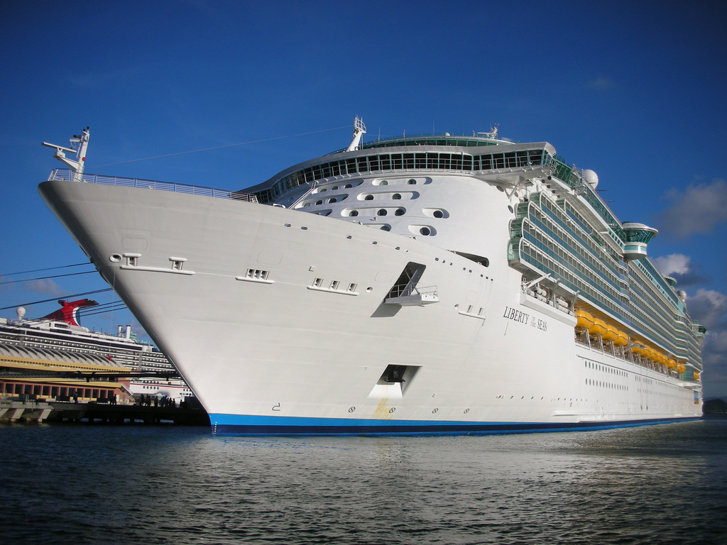 Liberty Of The Seas docked in San Juan, Puerto Rico.